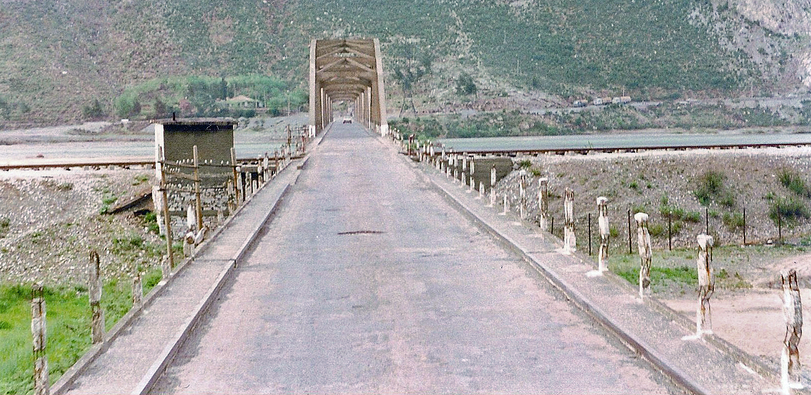 Zogu Bridge in Albania – spring of 1994 – with railroad line